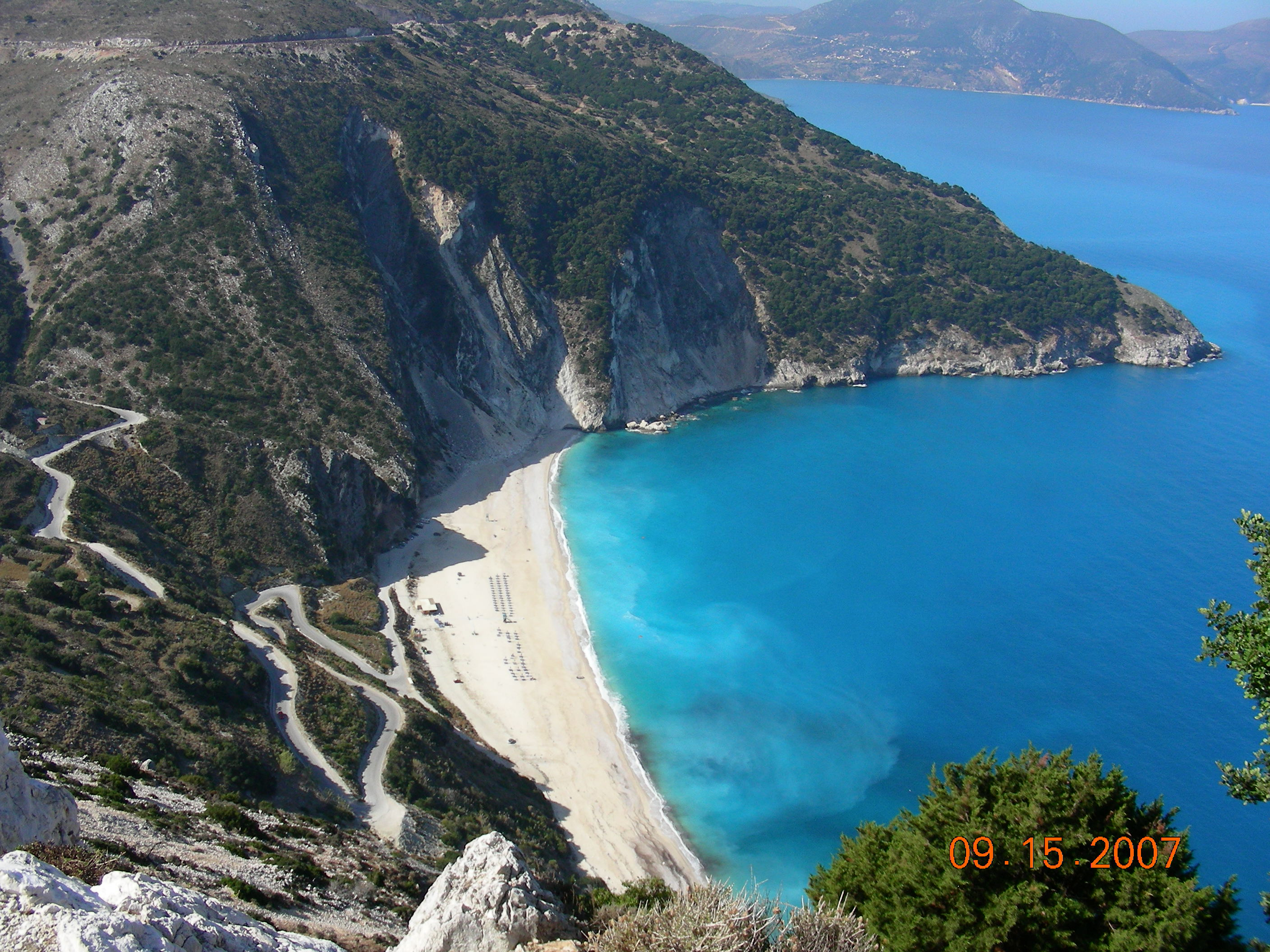 Photo of Myrtos Beach in Kefalonia, Greece. Taken in 09/2007.